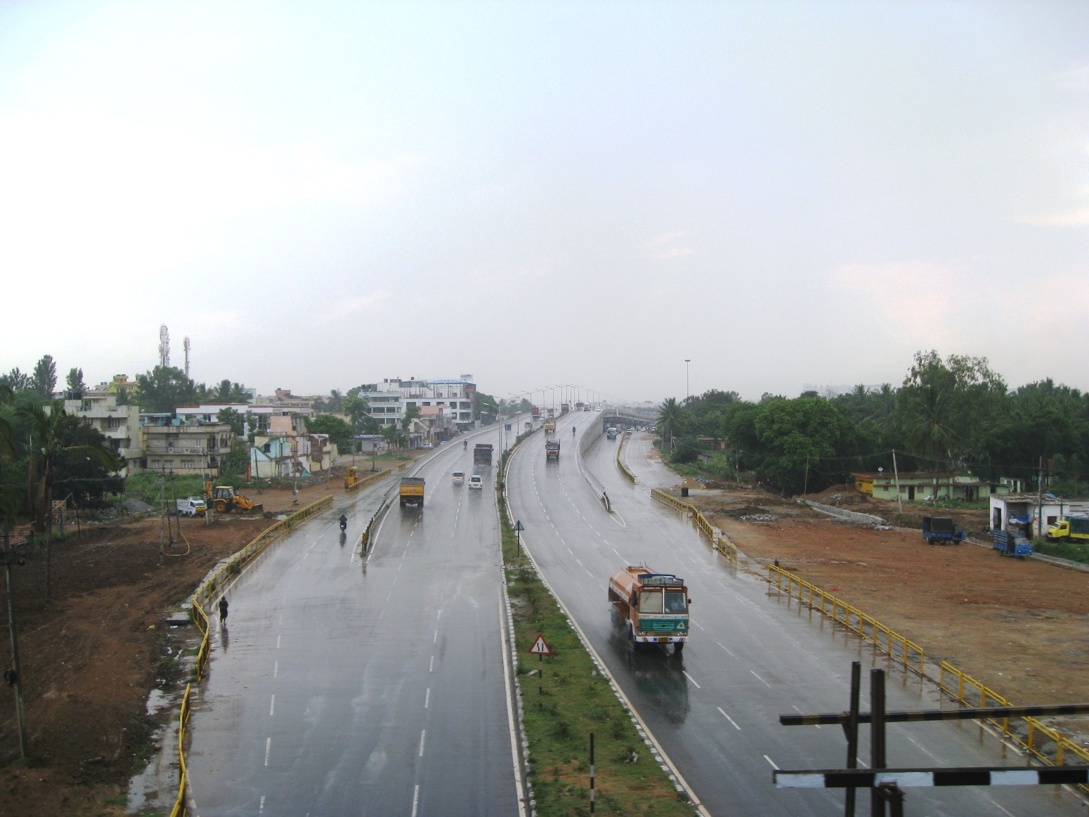 Chandapura Junction, Hosur Road.